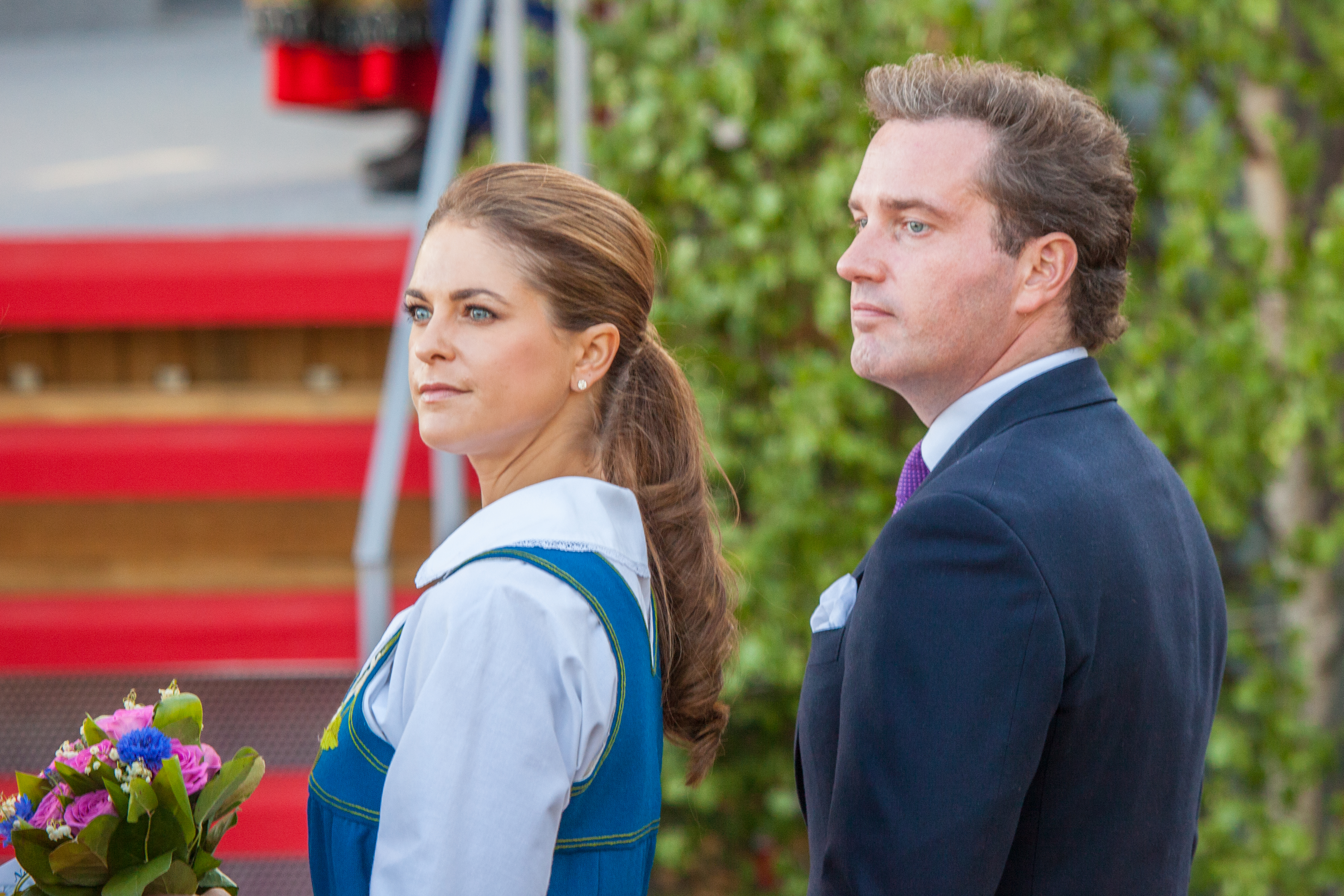 Princess Madeleine of Sweden and Christopher O´Neill at the Swedish National Day 6th of June 2013 at Skansen Stockholm Sweden